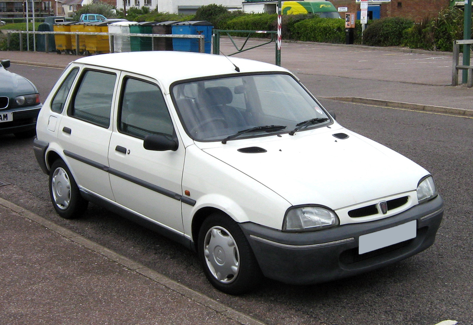 A 1995-96 Rover 111 i Extra